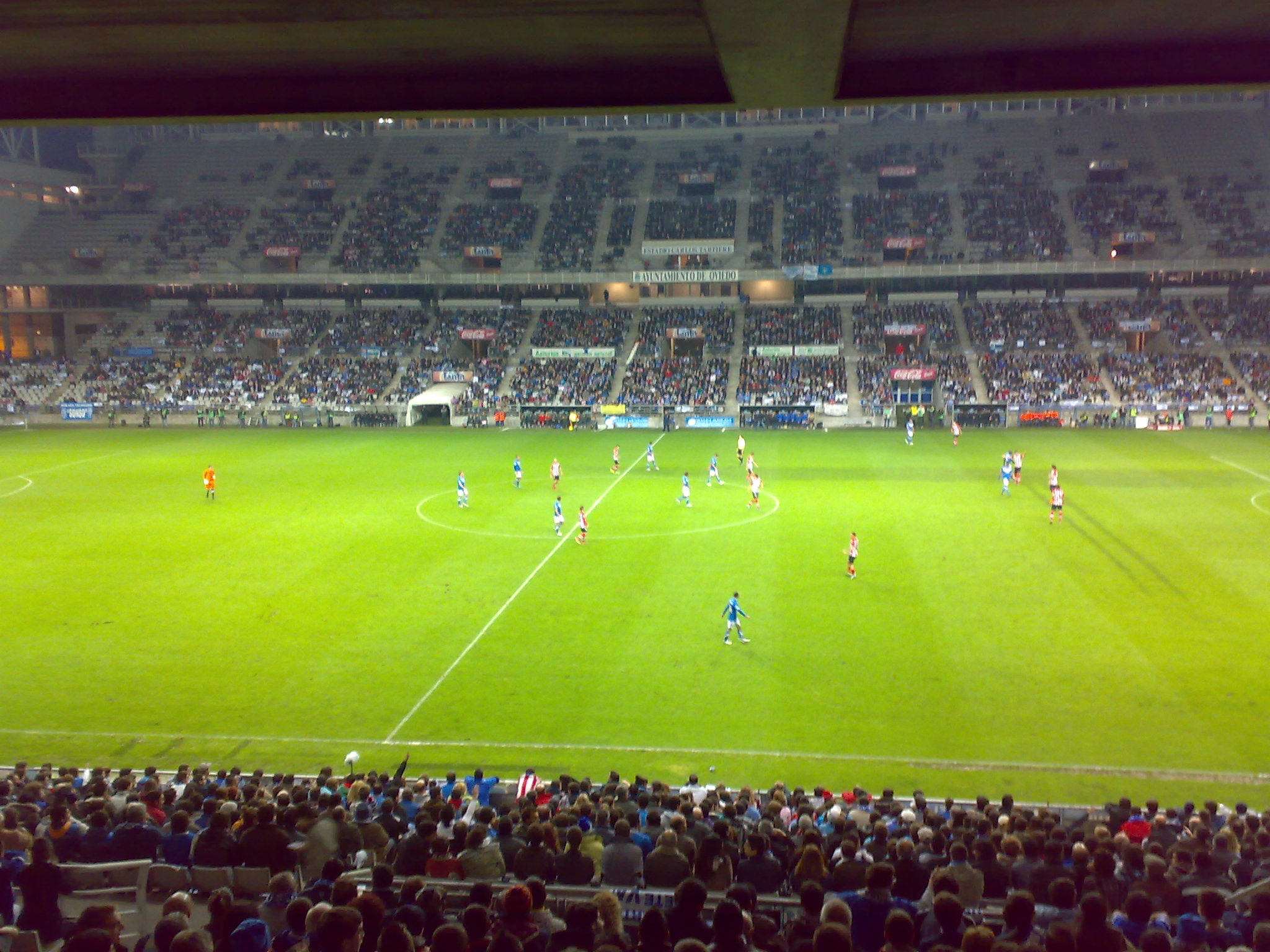 Match Real Oviedo - Atheltic Bilbao Cup (8-12 2011)